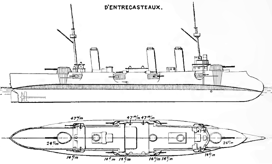 Rough sketch of the French protected cruiser D'Entrecasteaux - with added details like: conning tower armour, barbettes' armour, screws, torpedo tubes (submerged and over water), forward breastwork.